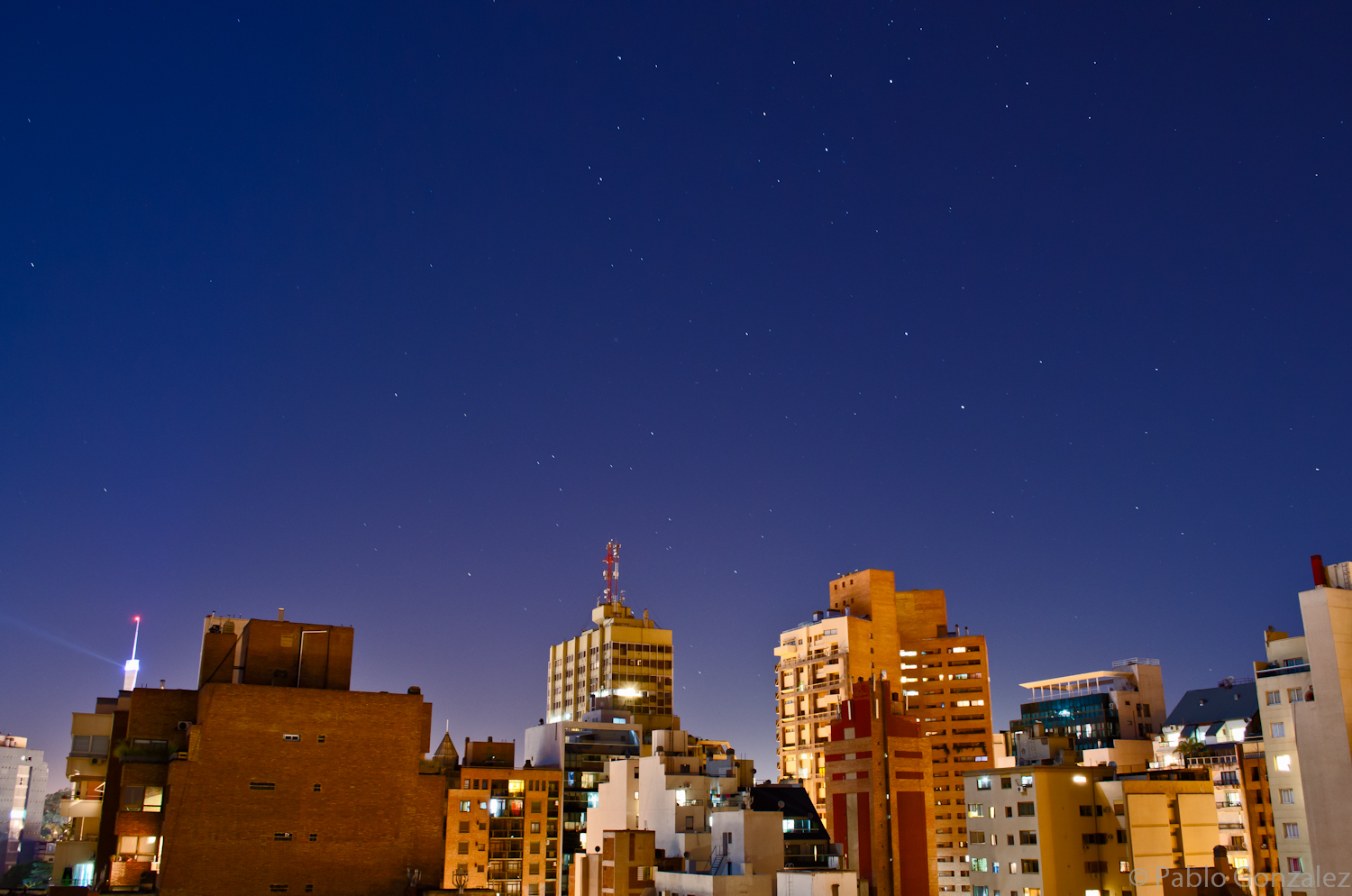 Skyline of Nueva Cordoba neighborhood, Cordoba city, Argentina.